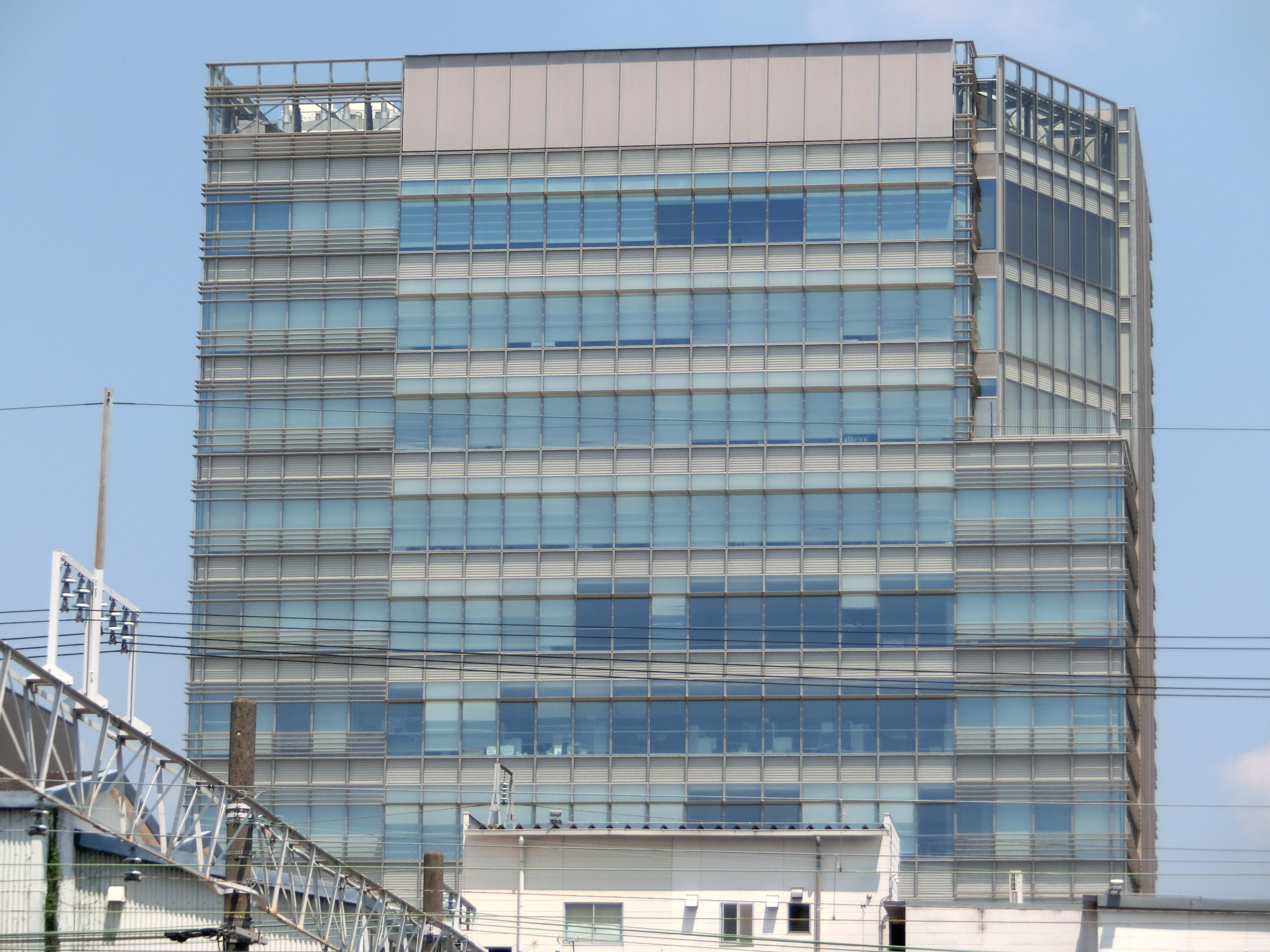 Zoshinkai Holdings Inc Head Office